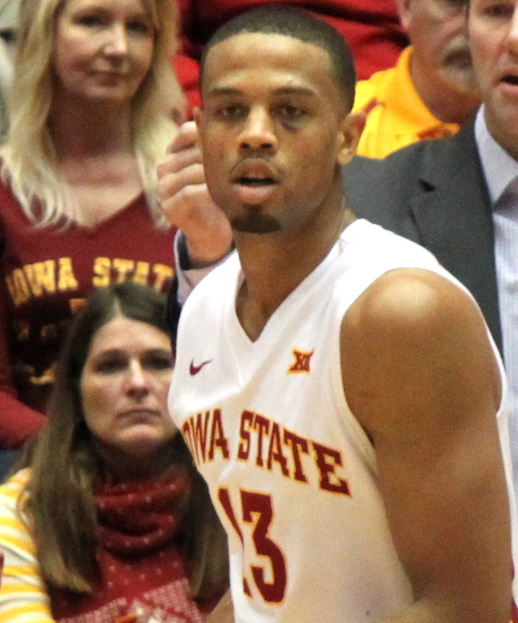 Iowa State University basketball player Bryce Dejean-Jones inbounds the basketball during a home game against West Virginia University on Feb. 14, 2015.